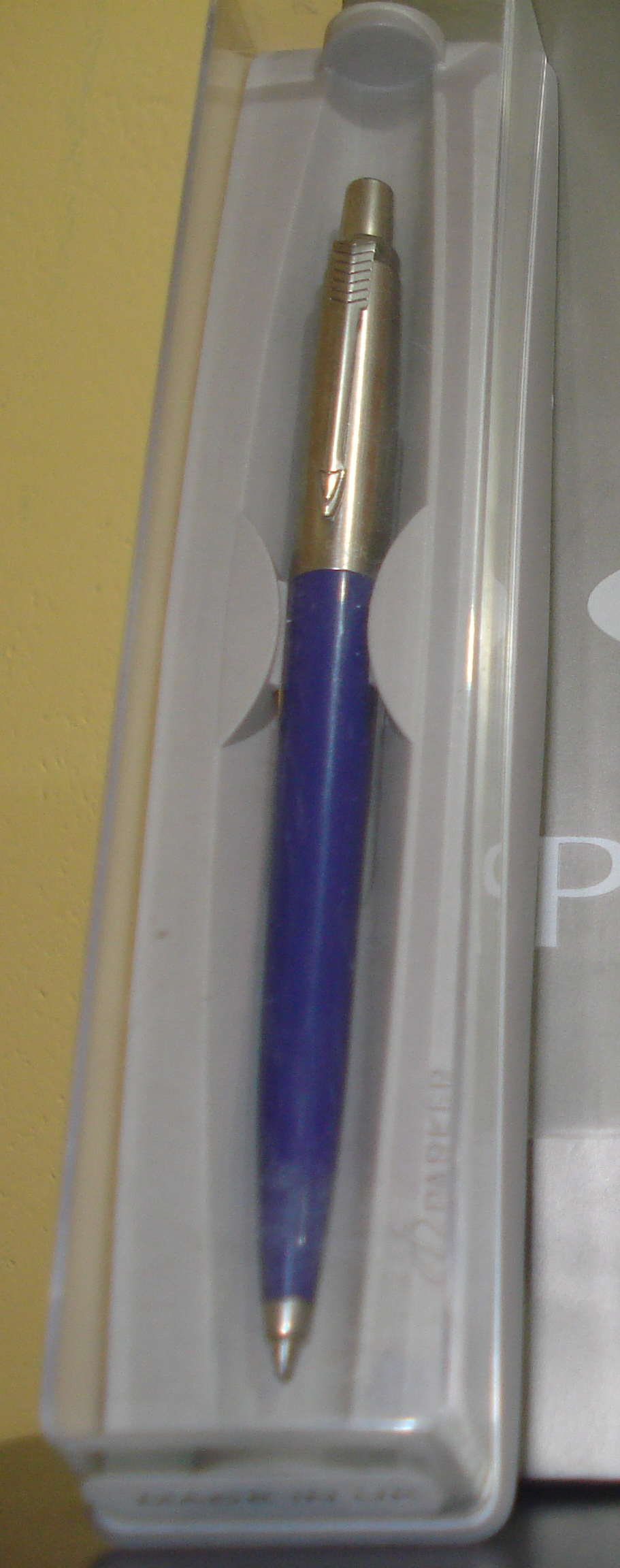 Parker Jotter ballpen in its packaging box.